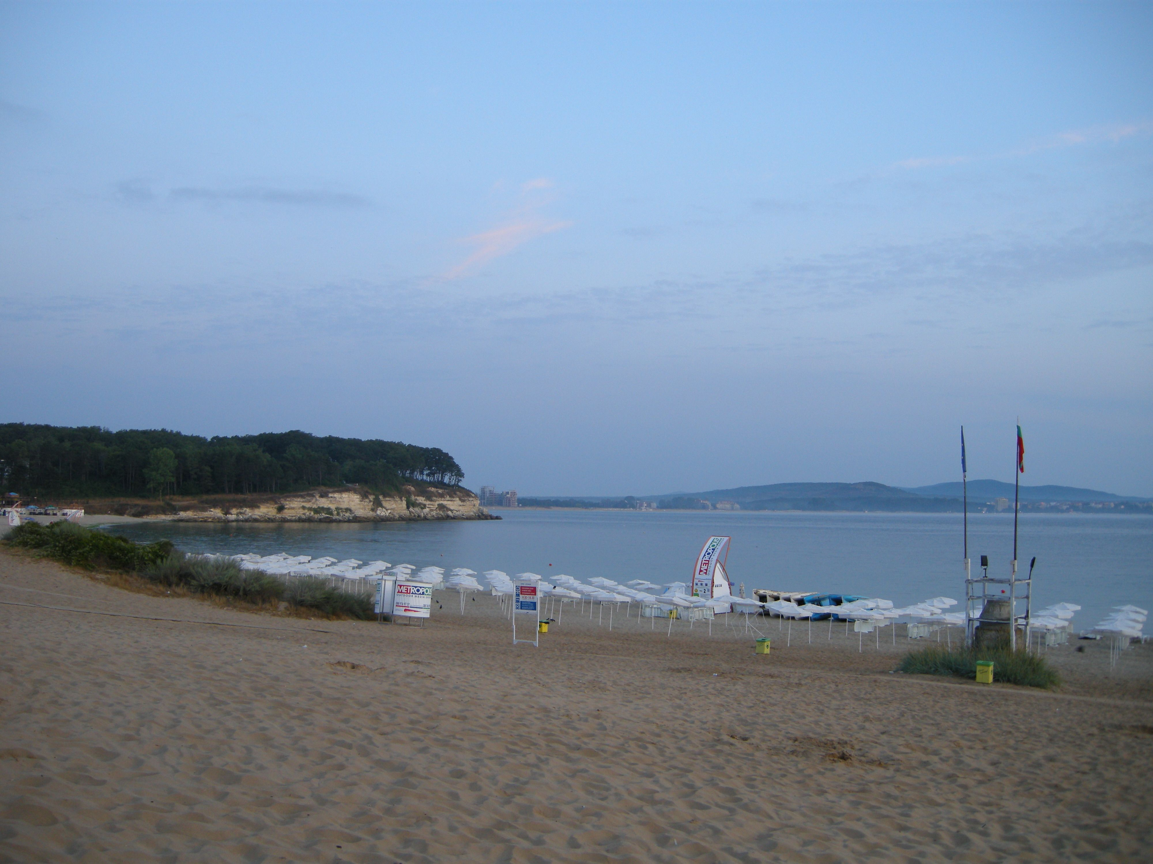 Atliman - the northern gulf and beach of Kiten resort at Black Sea, Bulgaria.